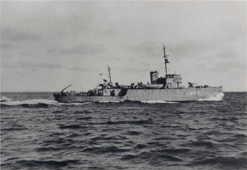 Photograph of Canadian Bangor class minesweeper HMCS Burlington (J250).